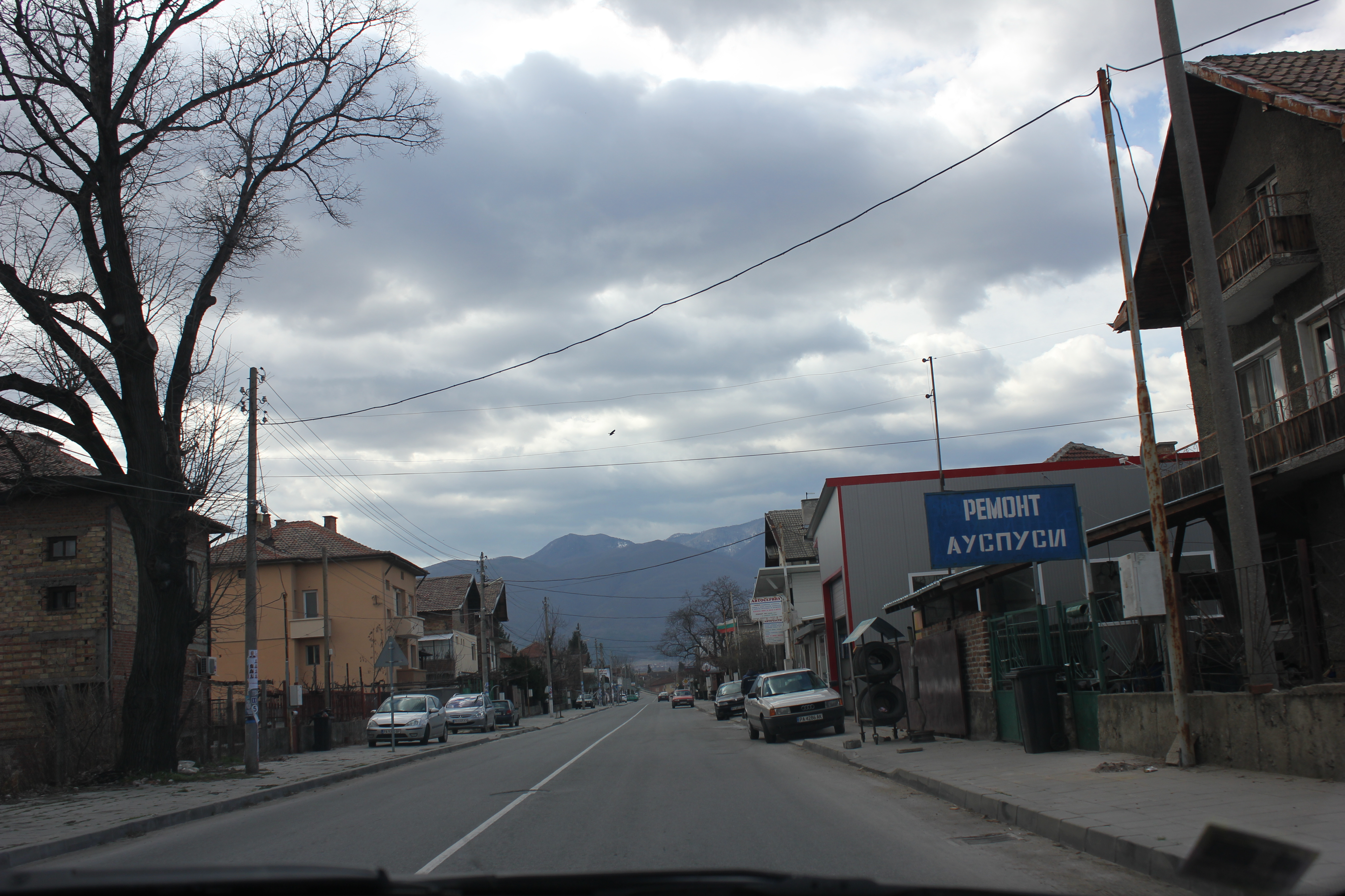 Septemvri main street